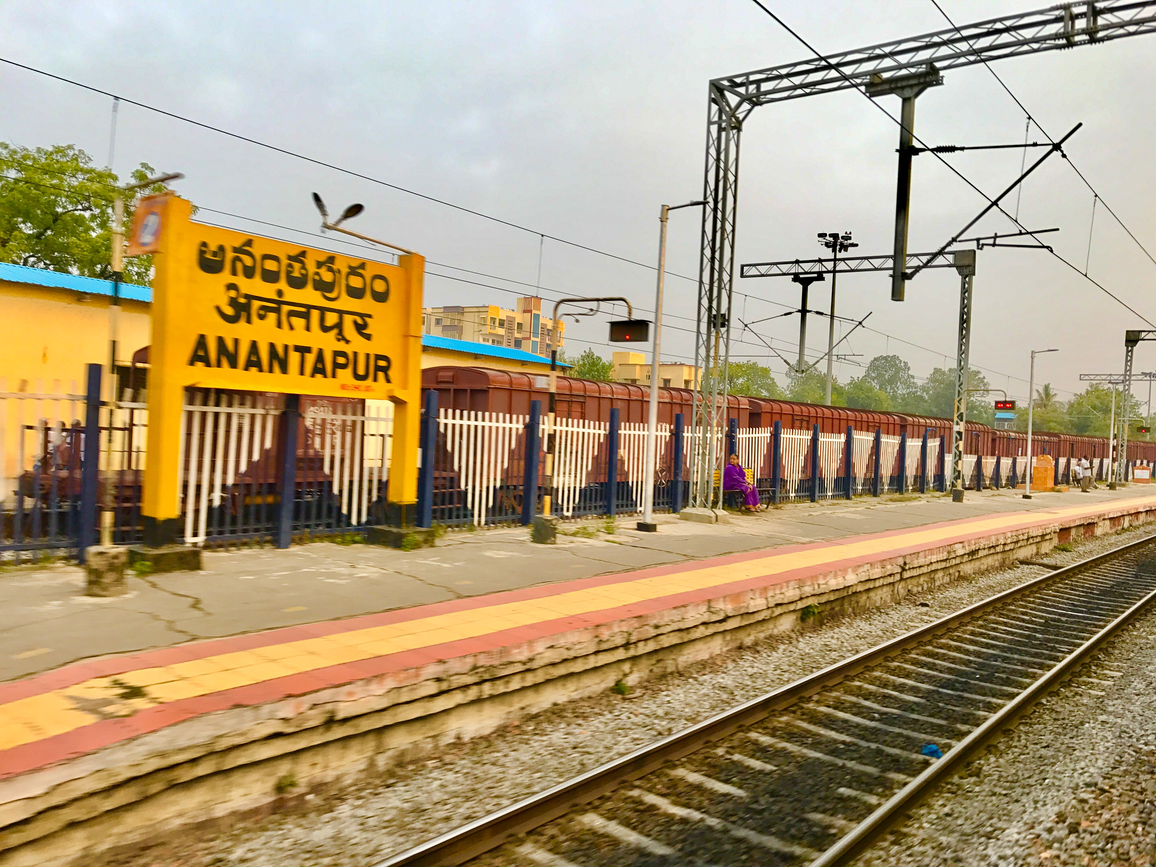 Board showing station name